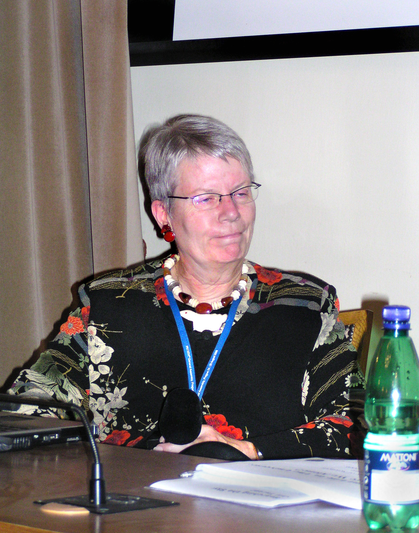 Jill Tarter and her lecture Intelligent Life in the Universe: Are We Alone? IAU 26th General Assembly, Prague